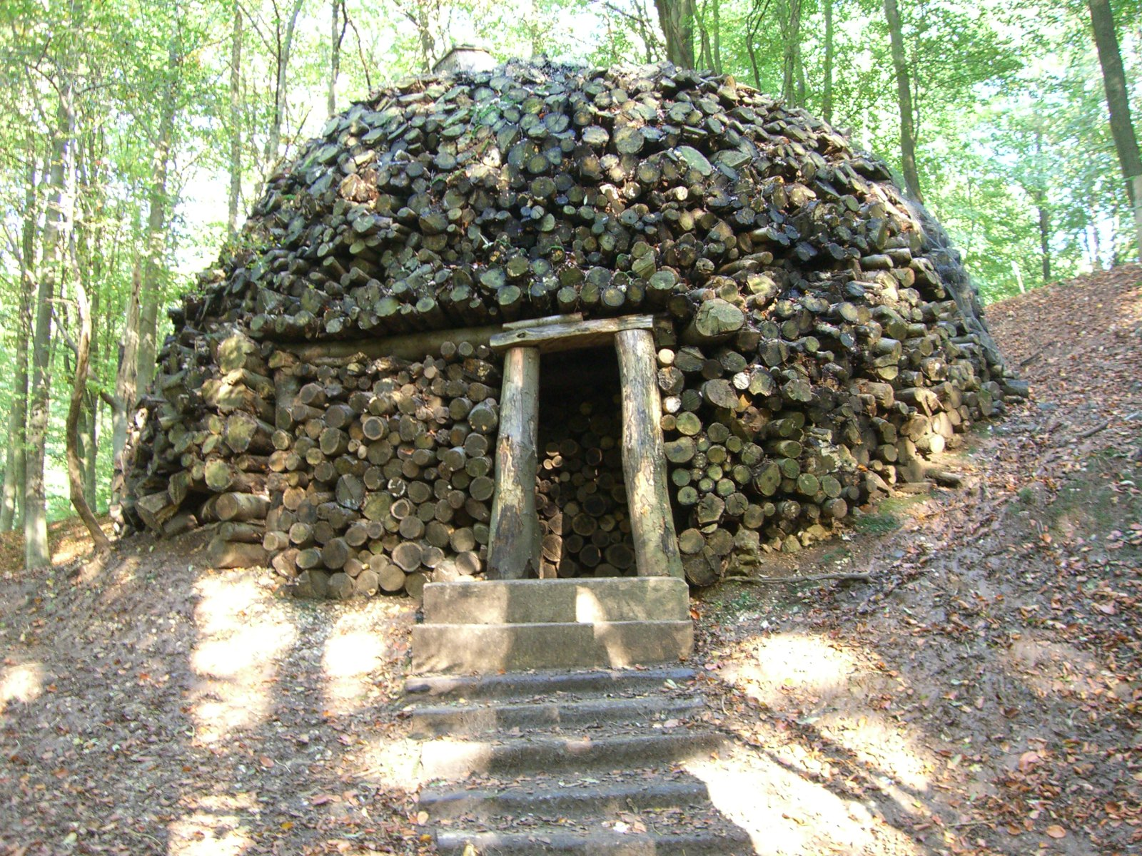 A camera obscura made from hundreds of chestnut logs. It is supposed to project an image of the sky and treetops onto the floor inside, but it was rather dark and intimidating when I looked in. : Cloud Chamber by Chris Drury in King's Wood/Kent/U.K.